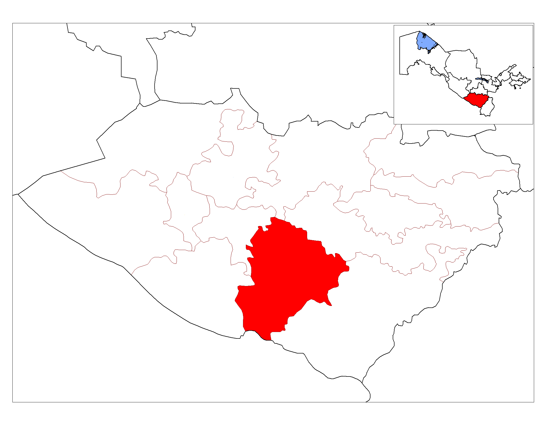 Location map of G’uzor District in Qashqadaryo Province, Uzbekistan